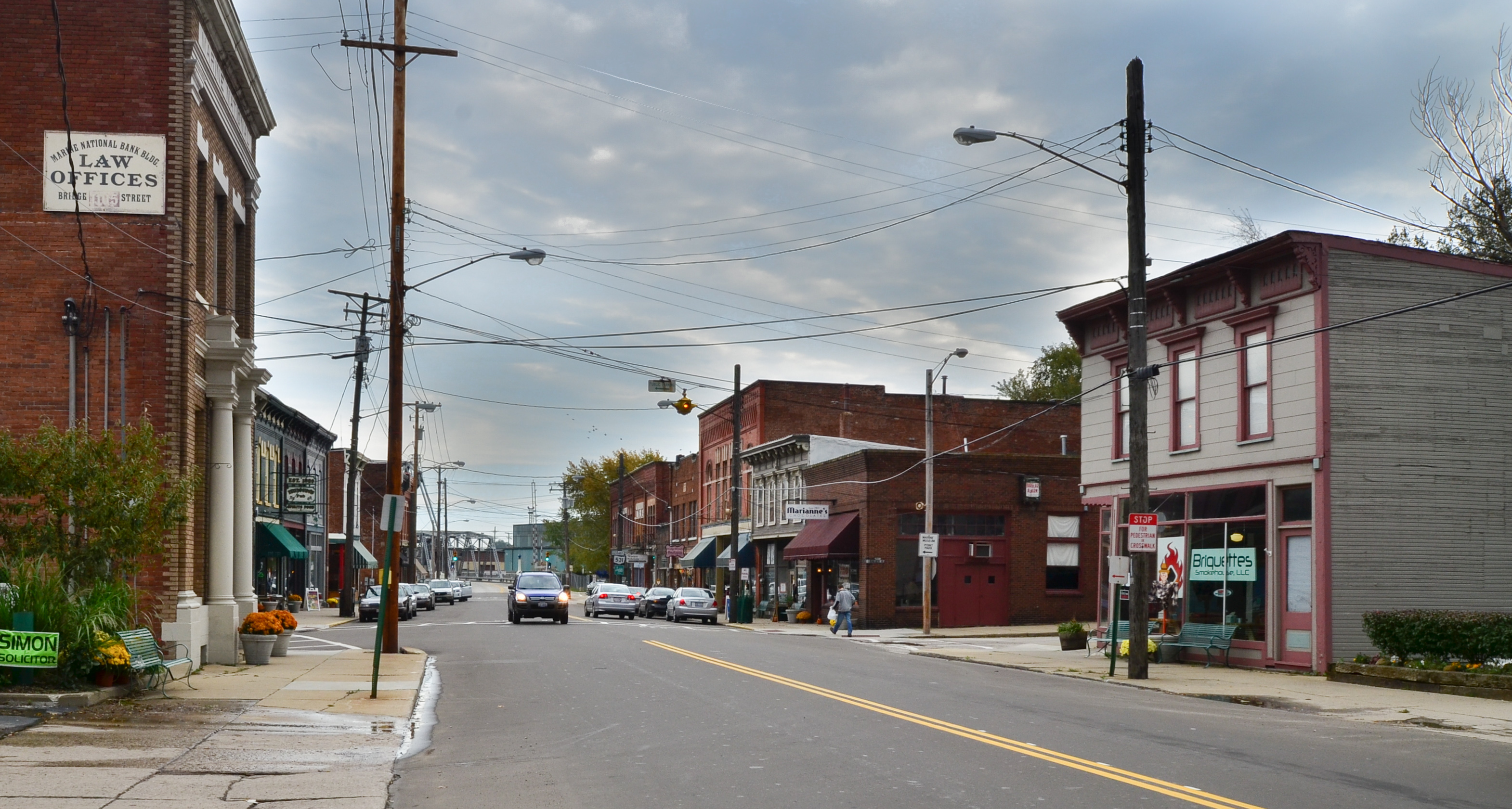 Ashtabula Harbour Commercial District, Ashtabula, Ohio